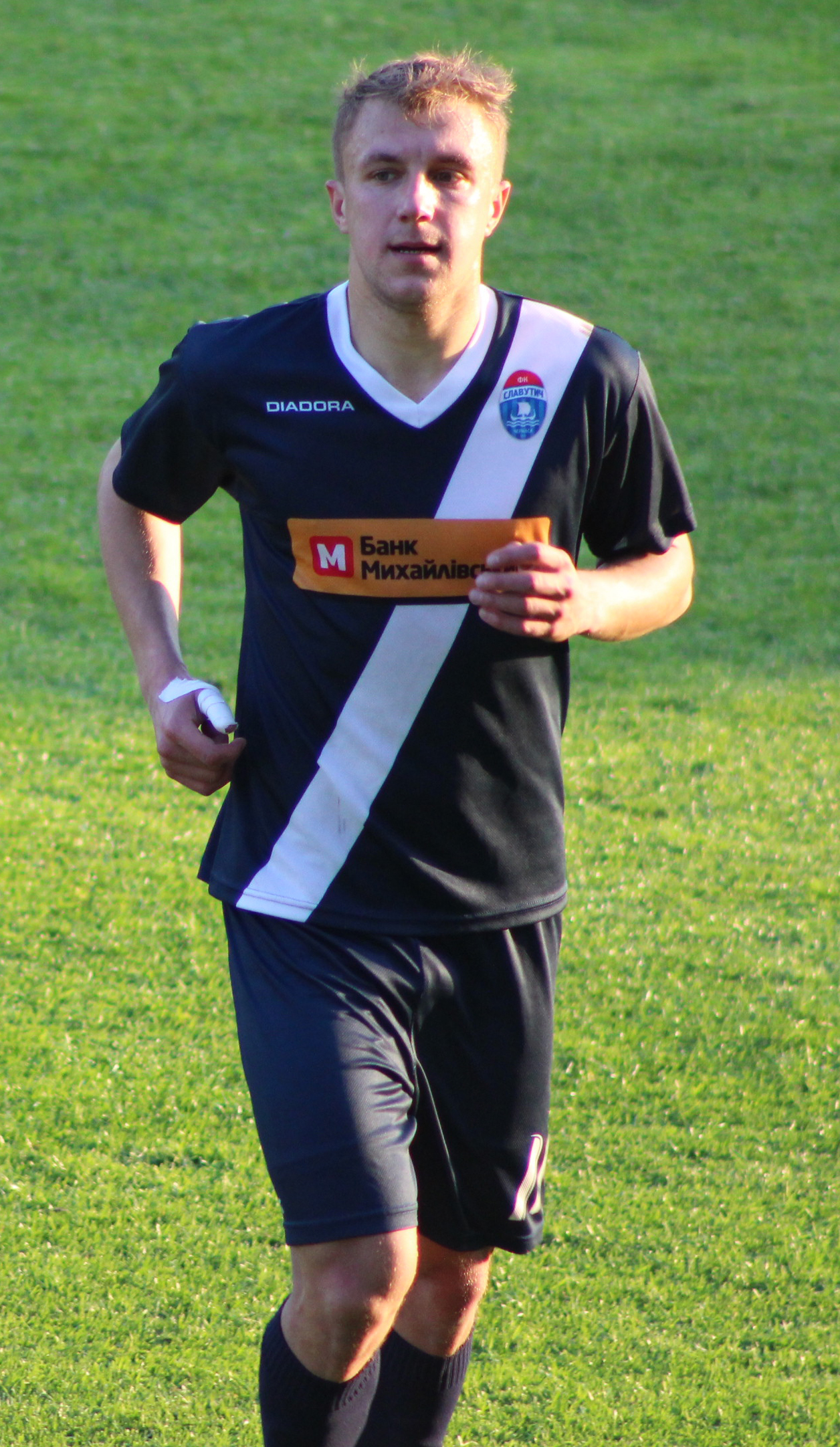 Roman Datsyuk